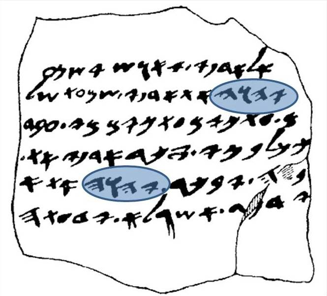 Ancient potsherd inscription